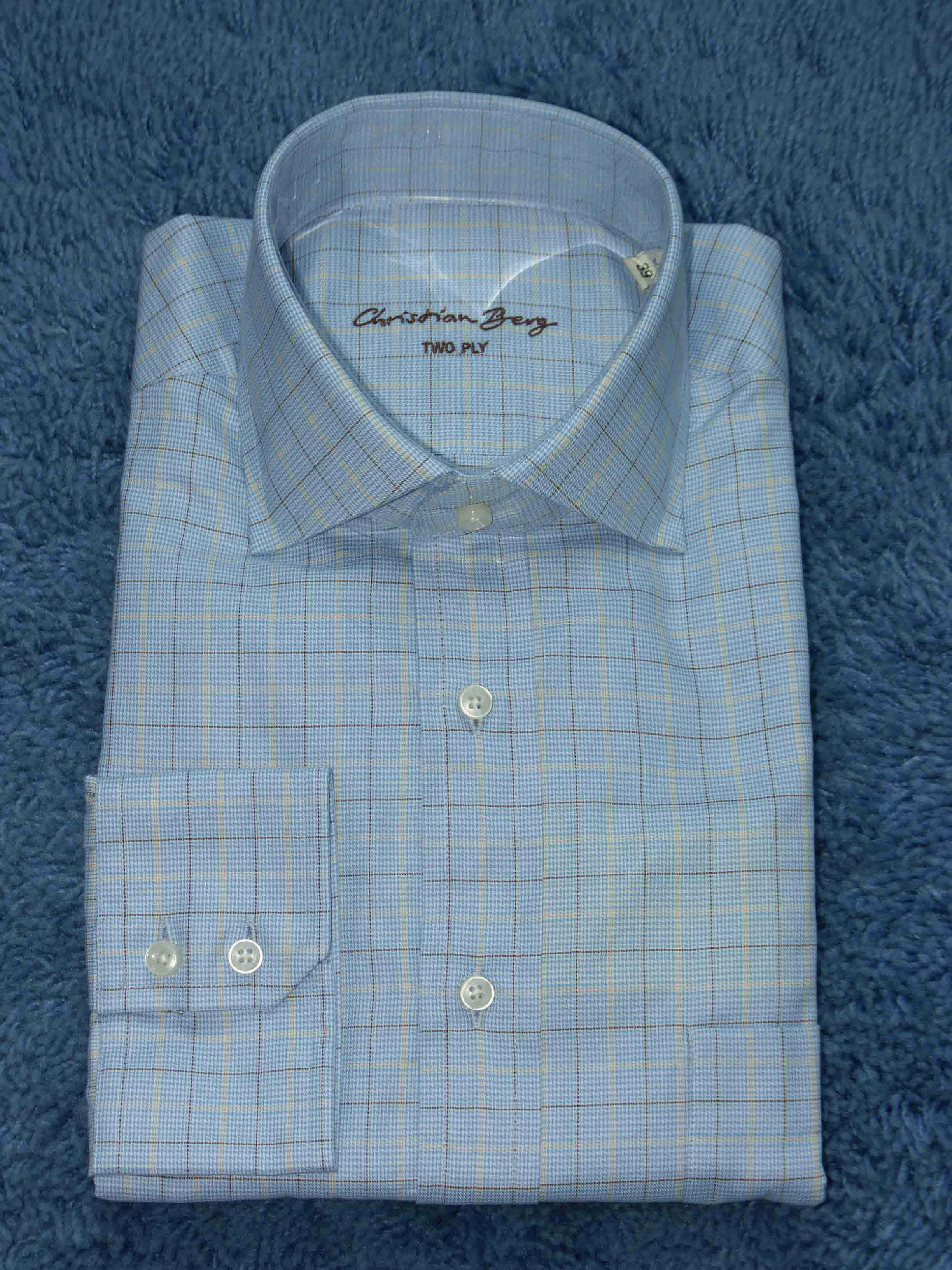 Shirt, brand: Christian Berg, fabric: cotton, 2-ply